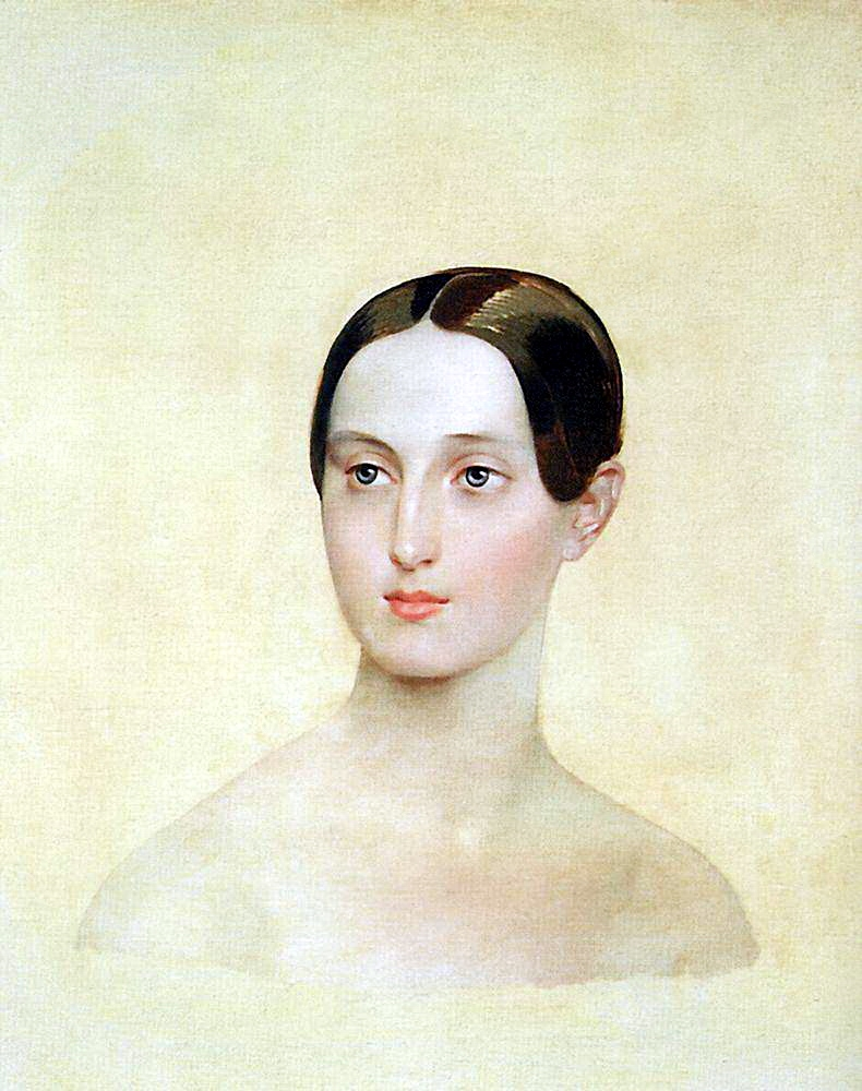 Portrait of Grand Duchess Maria Nikolaievna (1819-1876). Study. (The eldest daughter of Emperor Nicholas I and the sister of Emperor Alexander II)